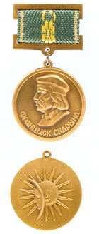 The Medal of Francysk Skaryna, Republic of Belarus